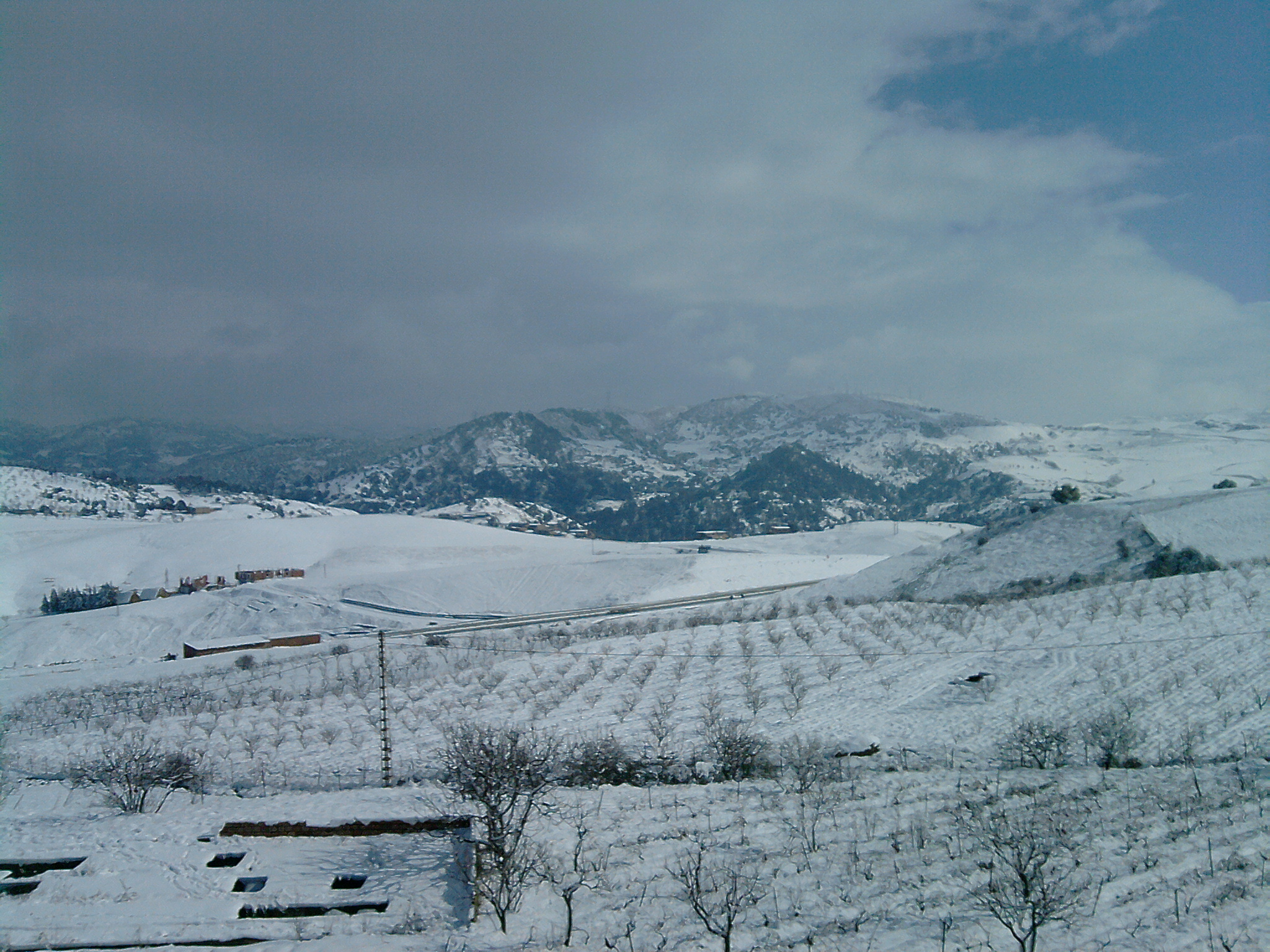 medea2012